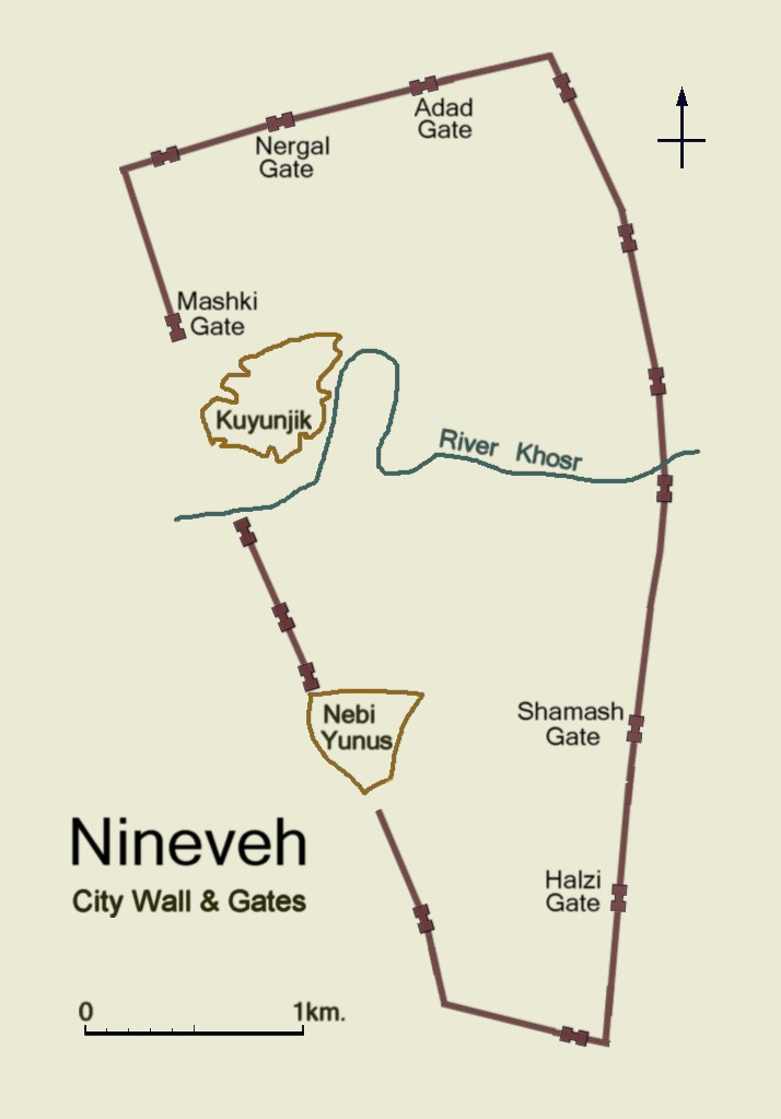 Simplified plan of ancient Nineveh showing city wall and location of gateways. Image created by Fredarch.